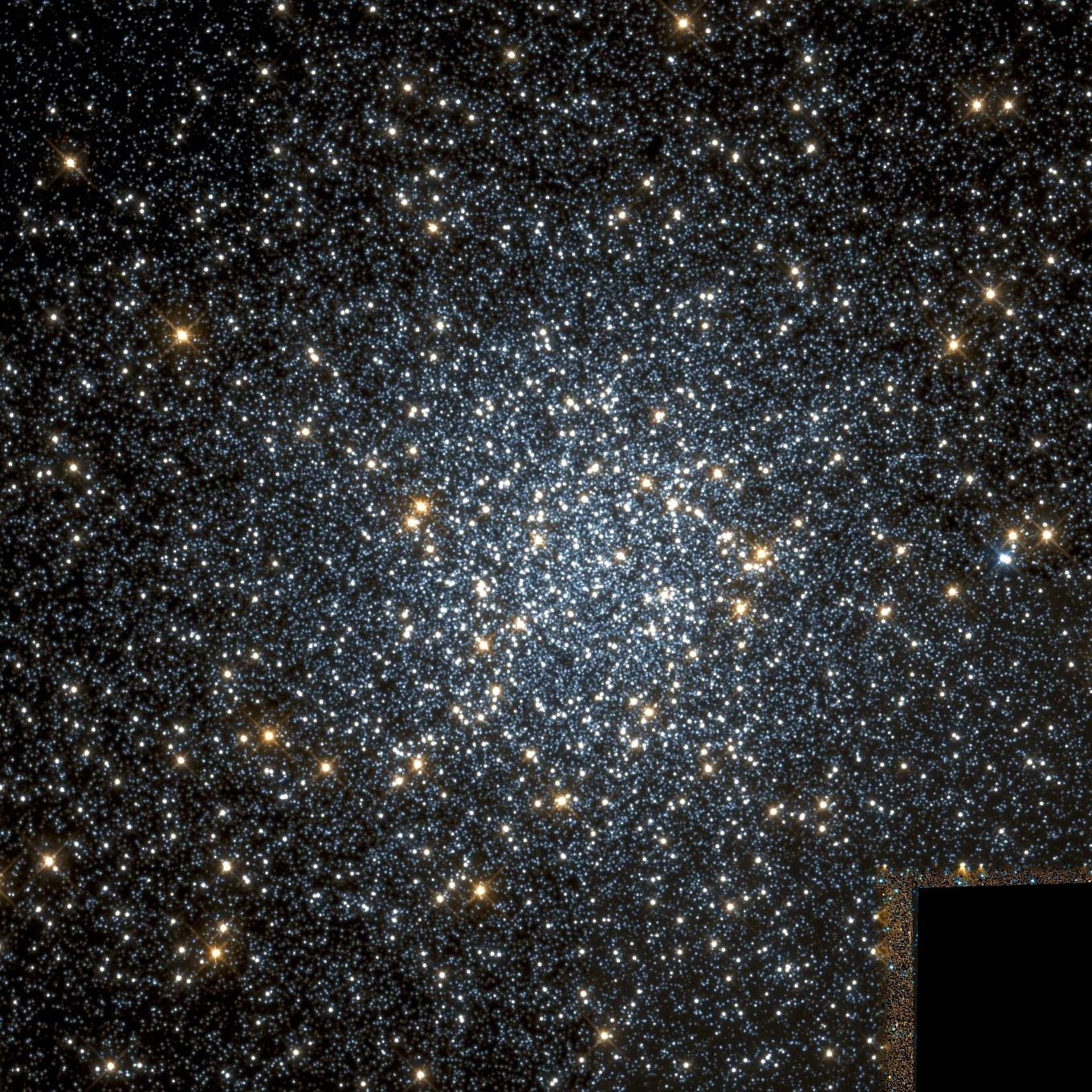 NGC 104 (en:47 Tucanae) globular cluster; Hubble Space Telescope; 2.3′ view